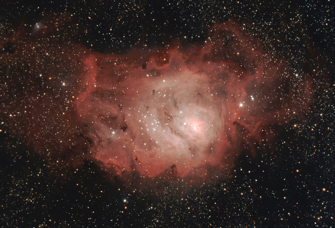 Lagoon Nebula, Messier 8